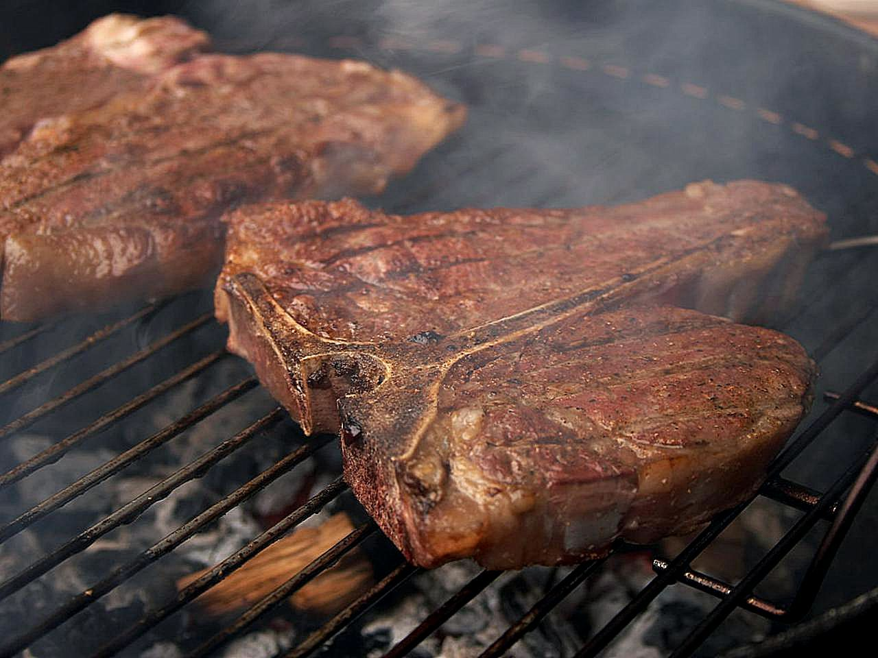 Image title: Porterhouse steaks grilling barbecue grills meat Image from Public domain images website